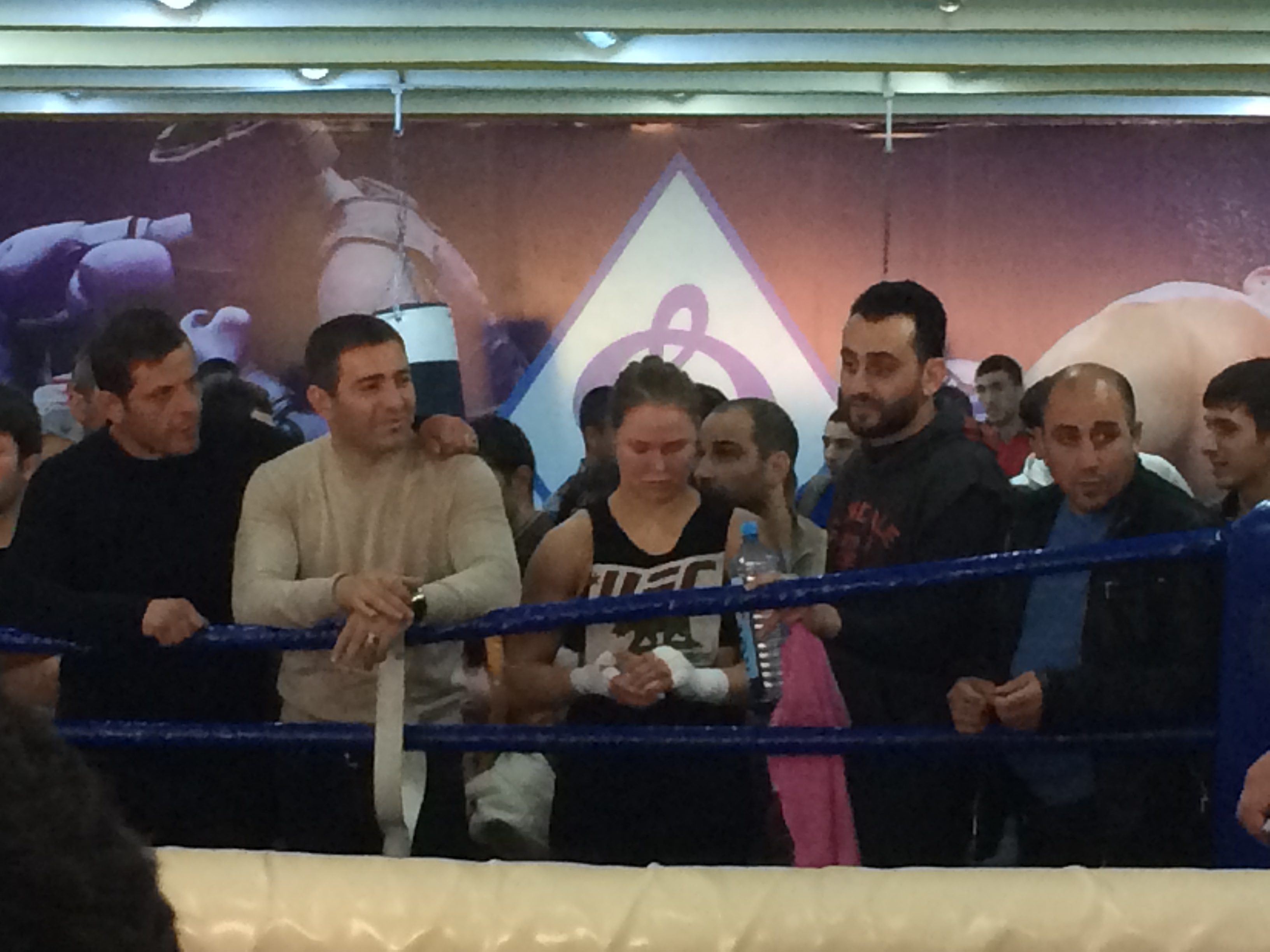 Ronda Rousey during her open workout at Dinamo center, Yerevan, Armenia.